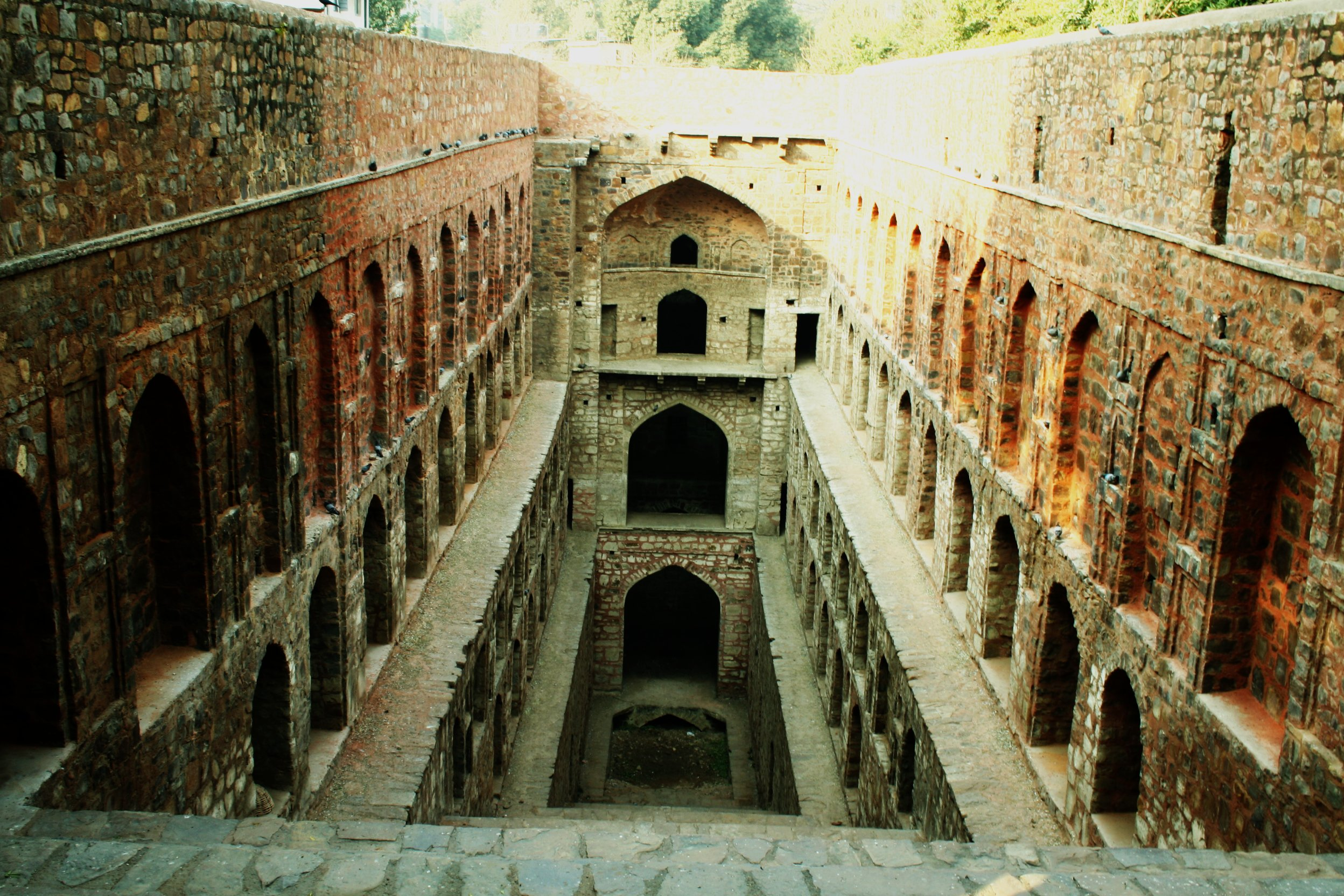 A step well called agersen ki baoli